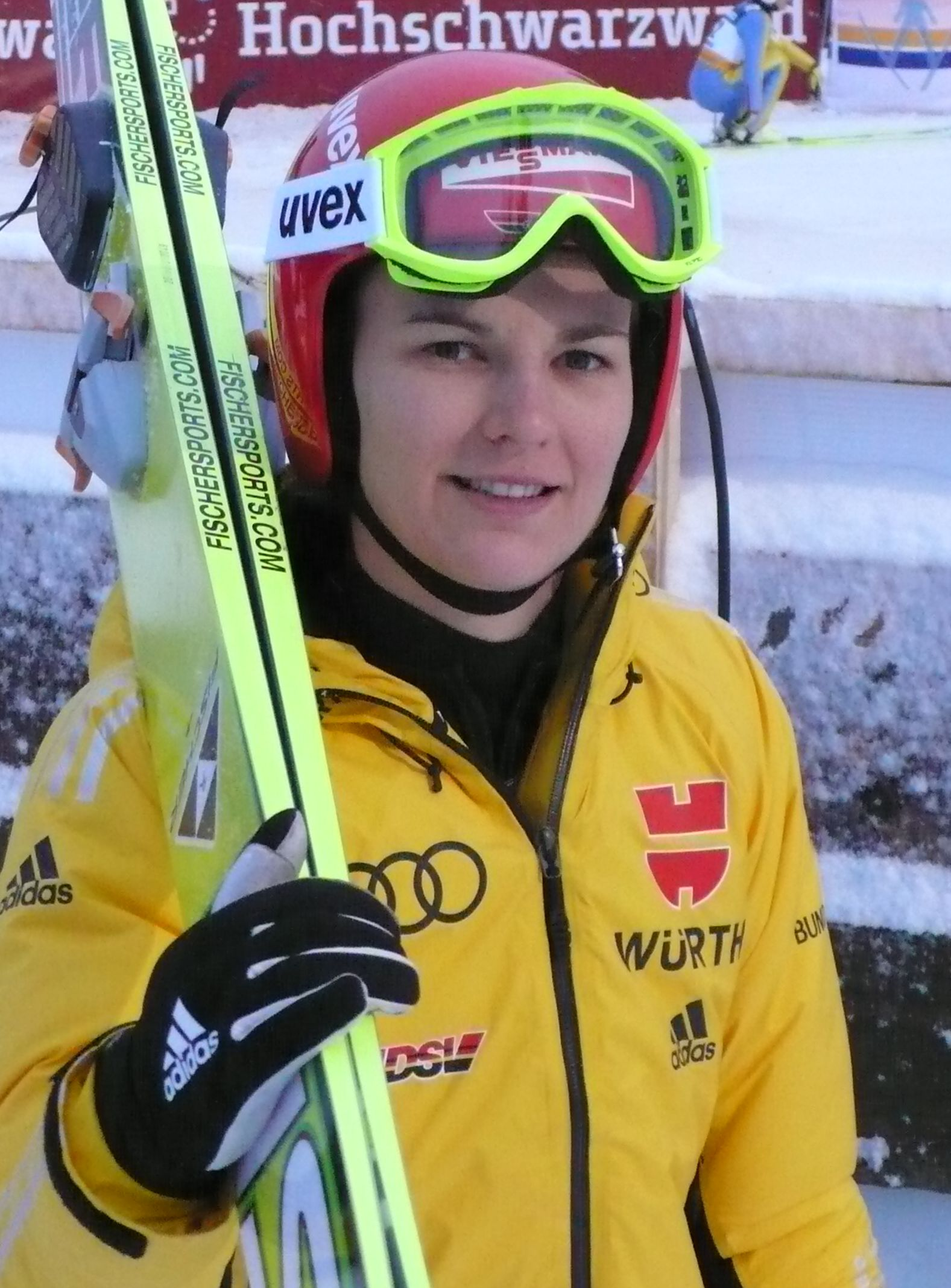 Ulrike Gräßler